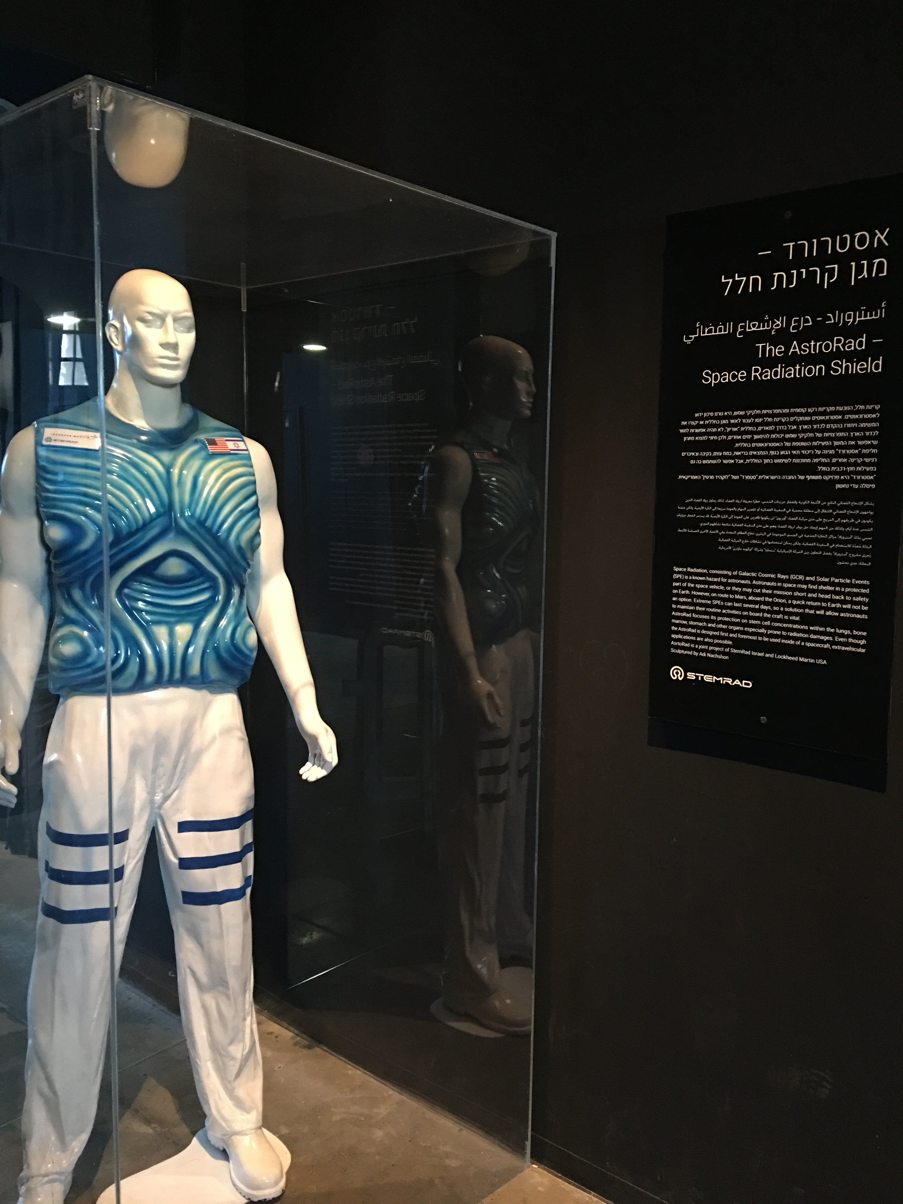 AstroRad Exhibit at Israel National Museum of Science, Technology and Space